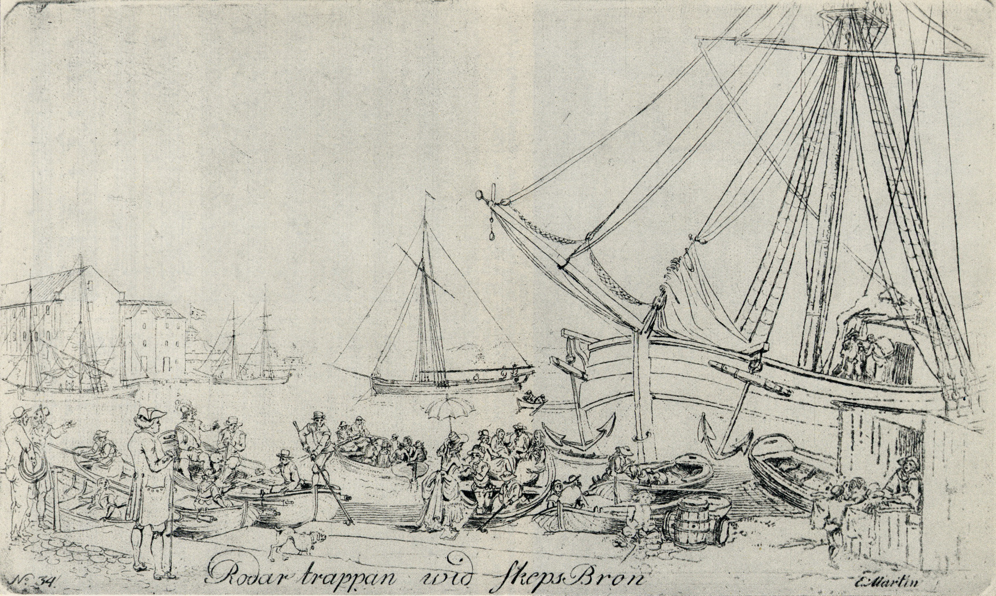 "The steps on Skeppsbro" etching by Elias Martin of a scene in Stockholm. It is popularly supposed that the woman boarding the boat is Ulla Winblad, the semi-mythical figure of muse and prostitute in many of Carl Michael Bellman's Epistles.